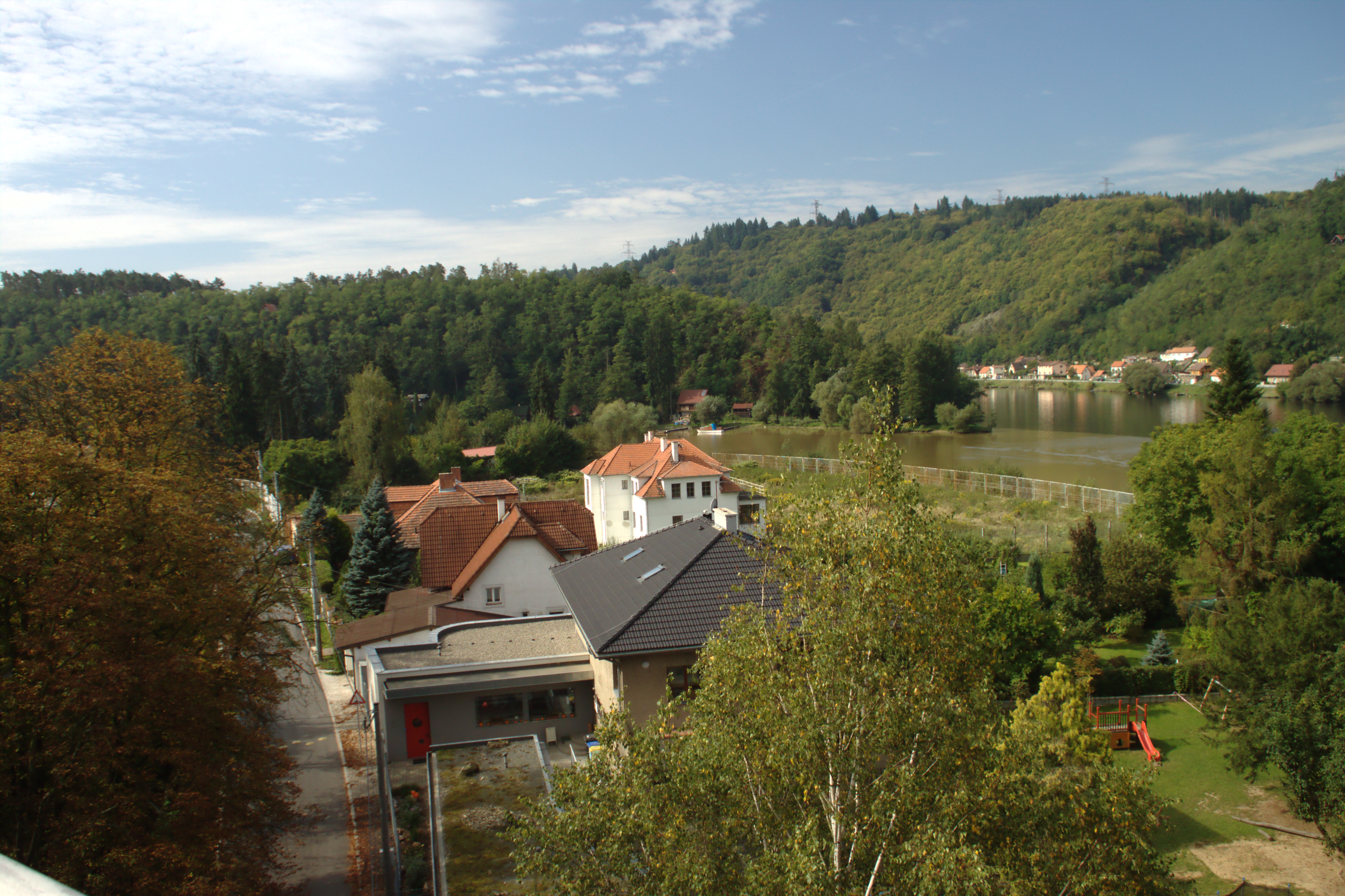 Sázava recreational area near Davle, Central Bohemia